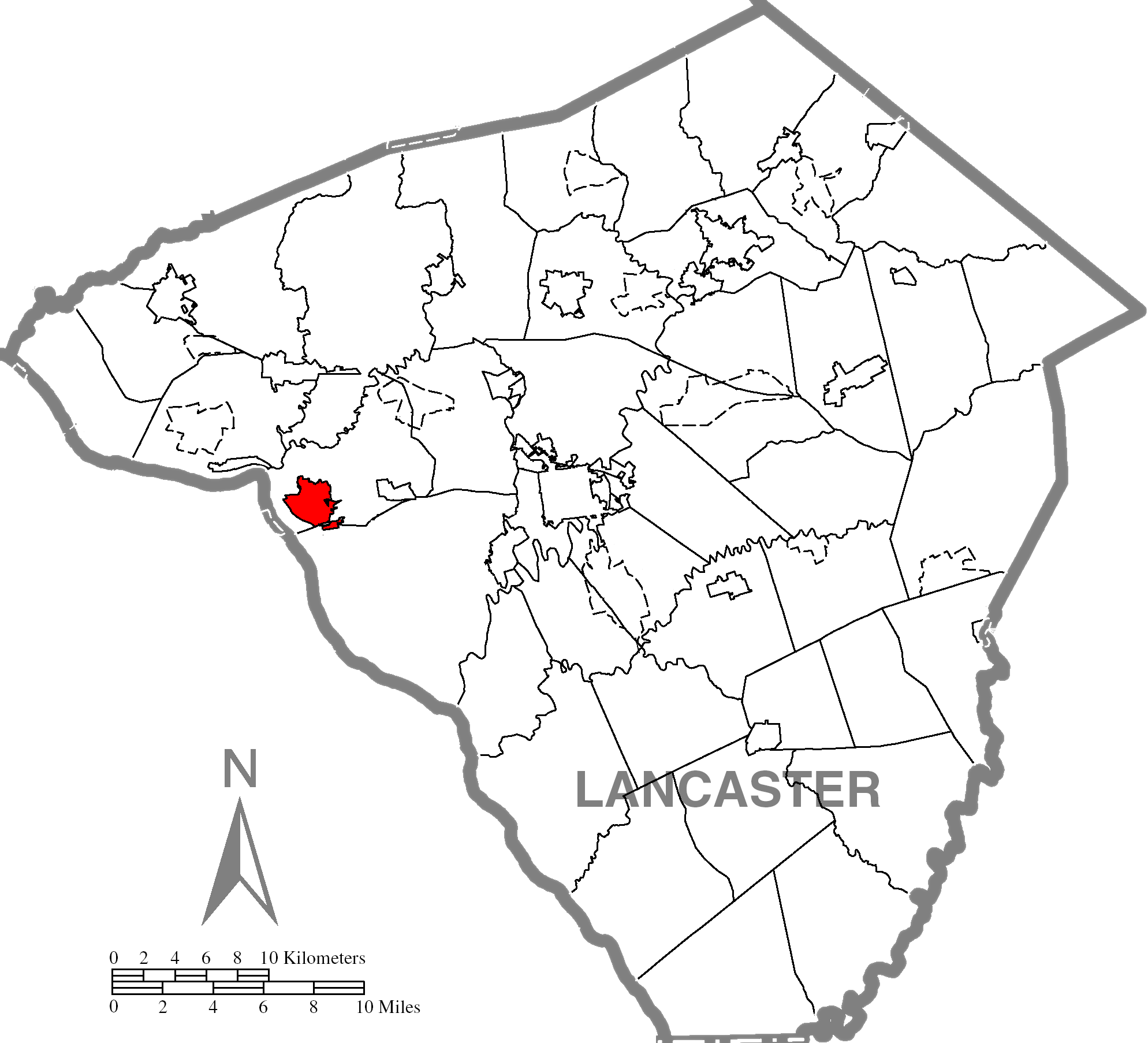 Highlighted Lancaster County map of Columbia.